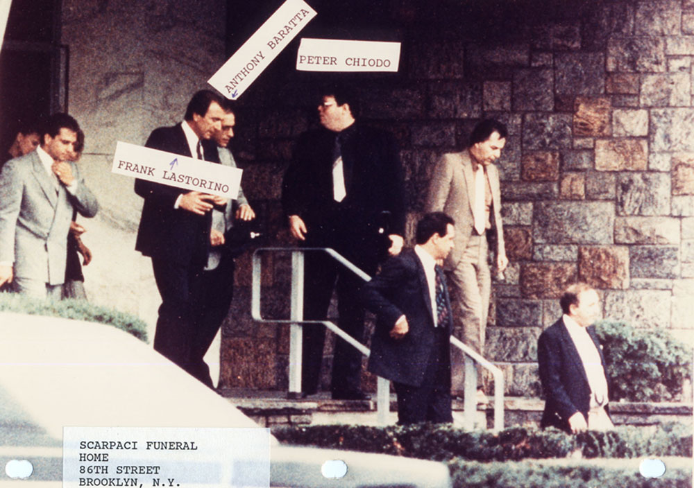 FBI surveillance picture of Peter Chiodo, Frank Lastorino, and Anthony Baratta